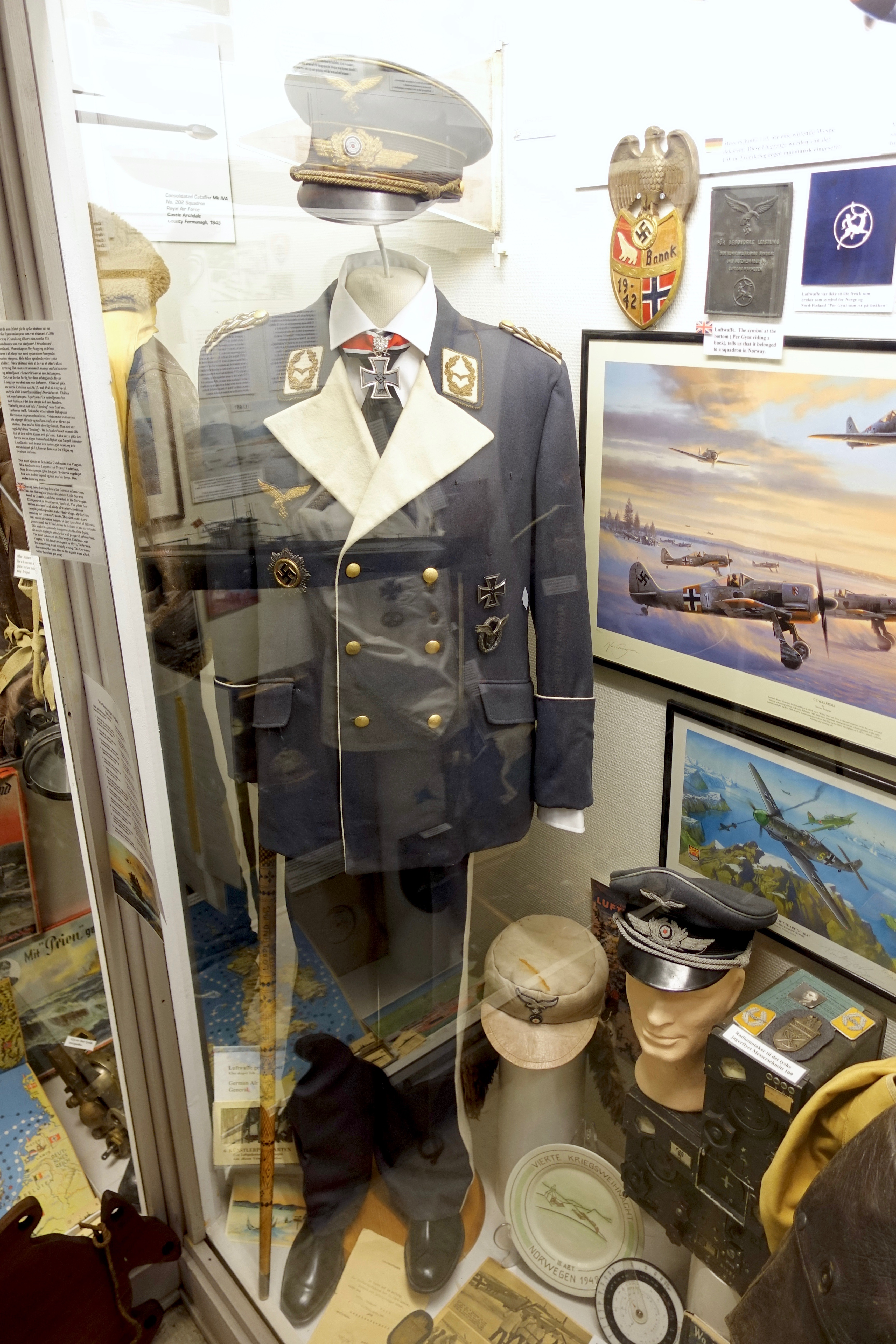 German Luftwaffe uniforms, equipment, Nazi period militaria, memorabilia, etc.: German Airforce Luffwaffe Generaloberst dinner dress/gala uniform: tunic/coat in Luftwaffe-blue gabardine with rank insignia on shoulder boards and collar tabs, white-lined lapels and piping on the covered fly and cuffs, gilded buttons, and gold-embroidered bullion Luftwaffe breast eagle(Brustadler, Reichsadler, Hoheitszeichen). Trousers of correspondingly coloured cloth, each side with white piping between broad white stripes. Also General officer visor cap. Decorations: The Knight's Cross of the Iron Cross (over necktie); Iron Cross 1st Class on coat breast; German Cross; Pilot/Observer Badge Paintings of German WW2 aircrafts Banak Air station wall plaques 1942 and 1943 Radio receiver in Messerschmitt 109 aircraft Vierte Kriegsweinacht Norwegen 1942 Christmas memoriabilia plate Art postcards Air field hand lantern Luftwaffe service cap Luftwaffe lined visored cap Peer Gynt emblem of a Luftwaffe squadron etc. Photo taken on May 8, 2019 at the Lofoten War Memorial Museum (Lofoten Krigsminnemuseum) in Svolvær, Norway. The museum exhibits uniforms, militaria, memorabilia, smaller items, etc. related to World War II, the German occupation of Norway 1940 – 1945, and the Third Reich era. Legal disclaimer This image shows (or resembles) a symbol that was used by the National Socialist (NSDAP/Nazi) government of Germany or an organization closely associated to it, or another party which has been banned by the Federal Constitutional Court of Germany. The use of insignia of organizations that have been banned in Germany (like the Nazi swastika or the arrow cross) are also illegal in Austria, Hungary, Poland, Czech Republic, France, Brazil, Israel, Ukraine, Russia and other countries, depending on context. In Germany, the applicable law is paragraph 86a of the criminal code (StGB), in Poland – Art. 256 of the criminal code (Dz.U. 1997 nr 88 poz. 553).